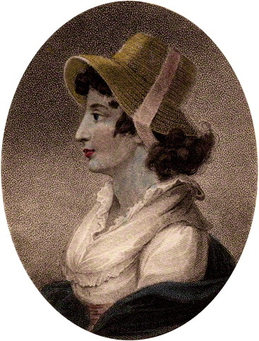 Portrait of Anna Laetitia Barbauld, cropped from original